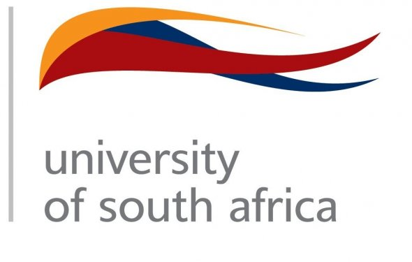 University of South Africa (UNISA) logo